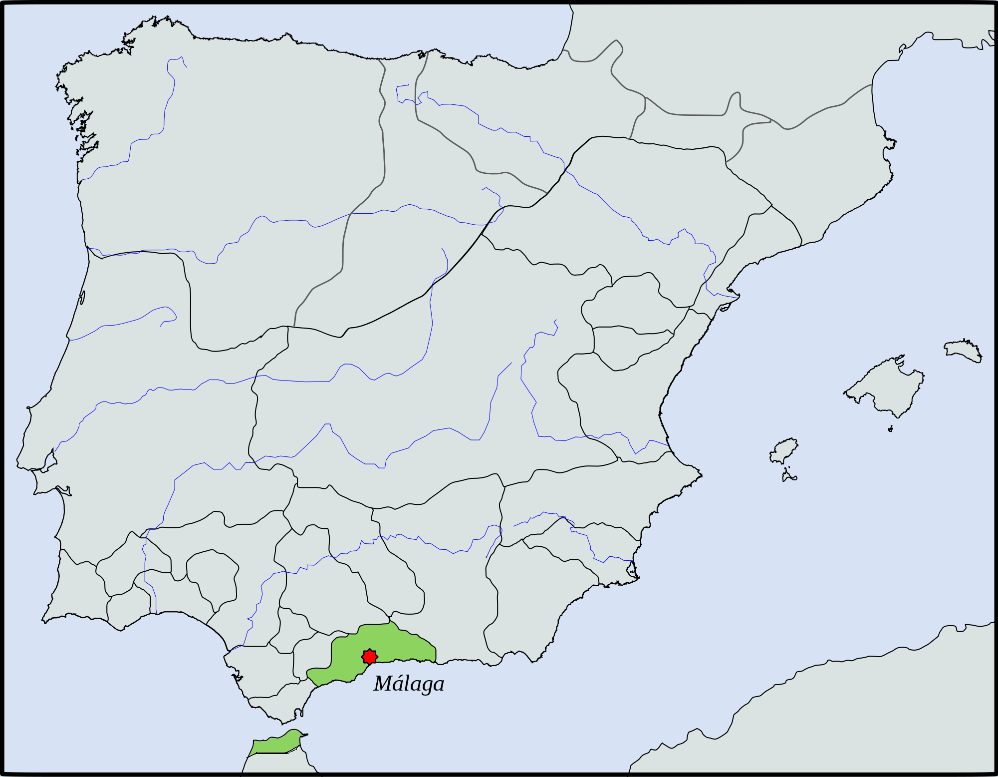 Location map Taifa of Málaga in 1037 (Tangier and Ceuta was part of this to 1068), information about Ceuta and Tangier: Estudios de Numismática Arábigo-Hispana: Considerada Como Comprobante ...Escrito por Antonio Delgado,Antonio Delgado y Hernández, pag 478